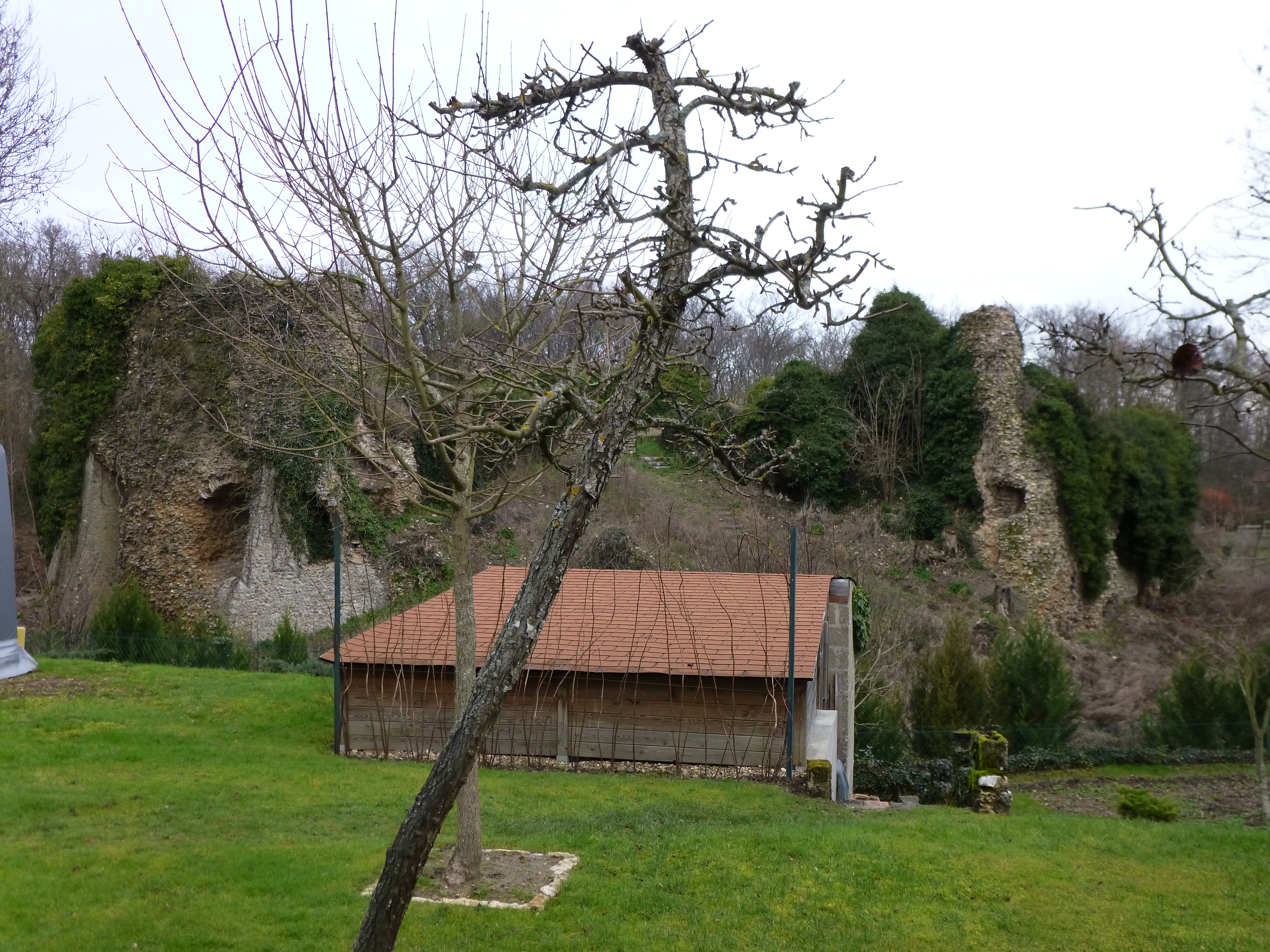 Saint-Maurice-sur-Aveyron, Loiret, région Centre, France. L'Infernat d'en haut ("Upper Infernat", sort of "Upper Enclosure") : north side of the champ de foire, the only one of the two castles in Saint-Maurice, that still shows some remains. Very steep moat.